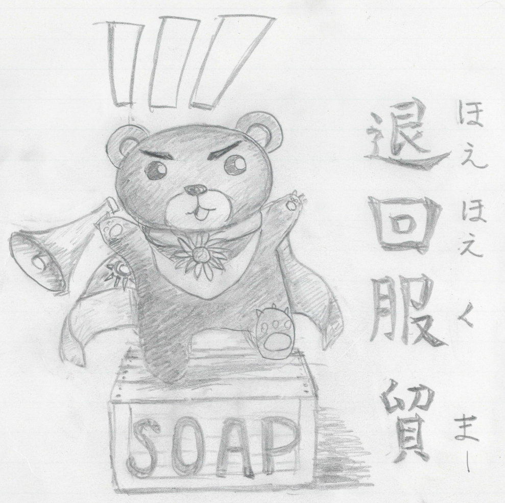 Mascot appeared in the Sunflower Student Movement in Taiwan.